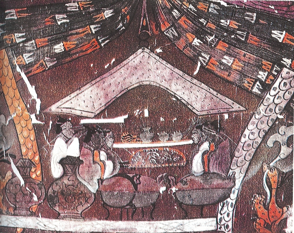 A Chinese silken banner section with a painted design of a sacrificial offering to the deceased, excavated from a tomb at Changsha, Hunan province, dated to the Western Han Dynasty (202 BC – 9 AD).